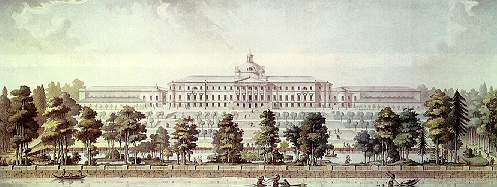 ArtistM.KazakovTitleView Golitsynskoya hospitals from the garden.Date1770sCurrent locationRussiaSource/Photographer (Reusing this file)Public domain